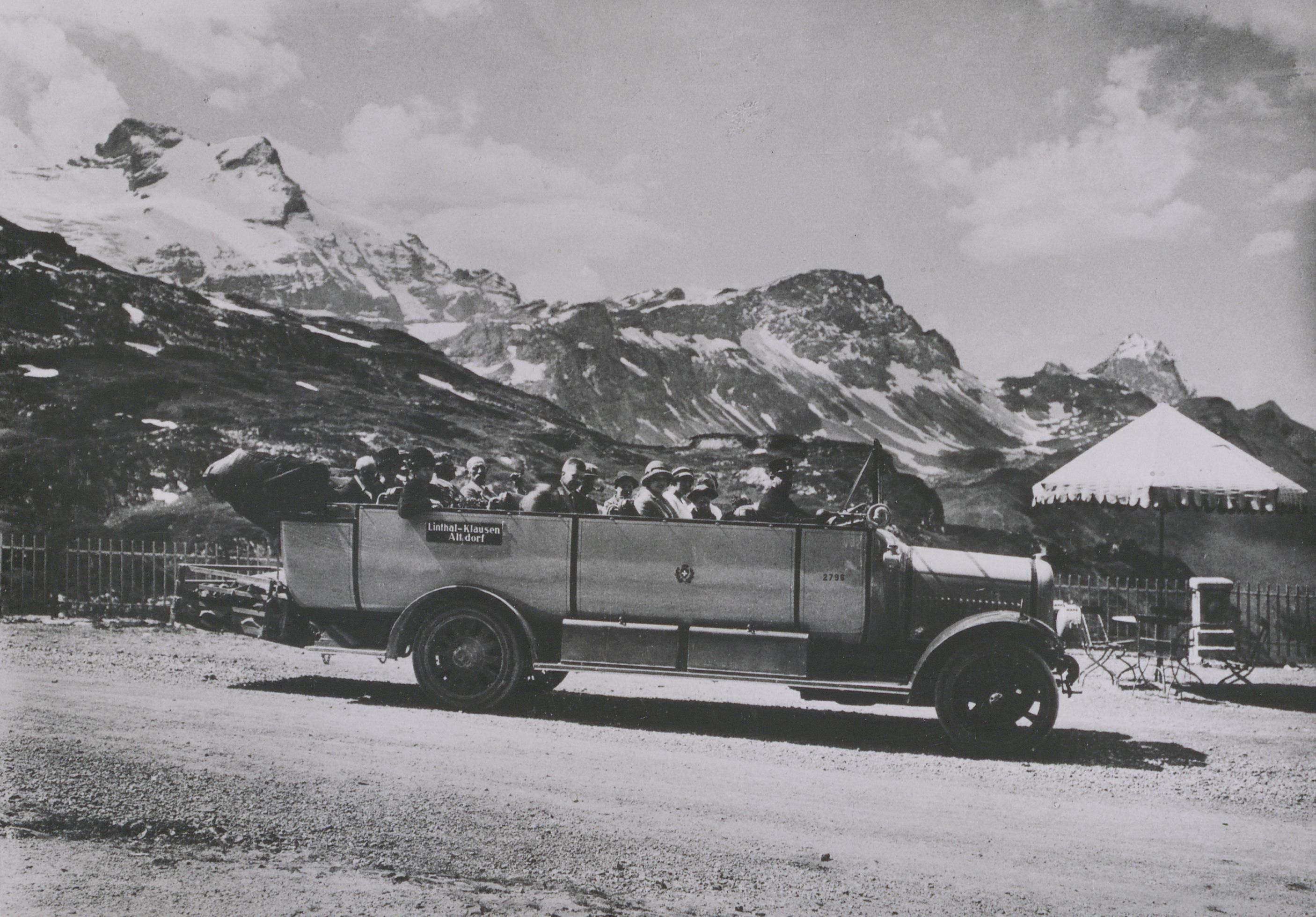 Postbus trip over the Klausen Pass